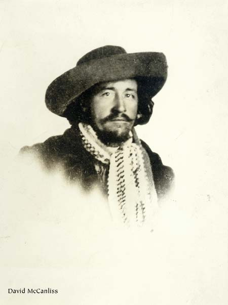 David C McCanless 1860